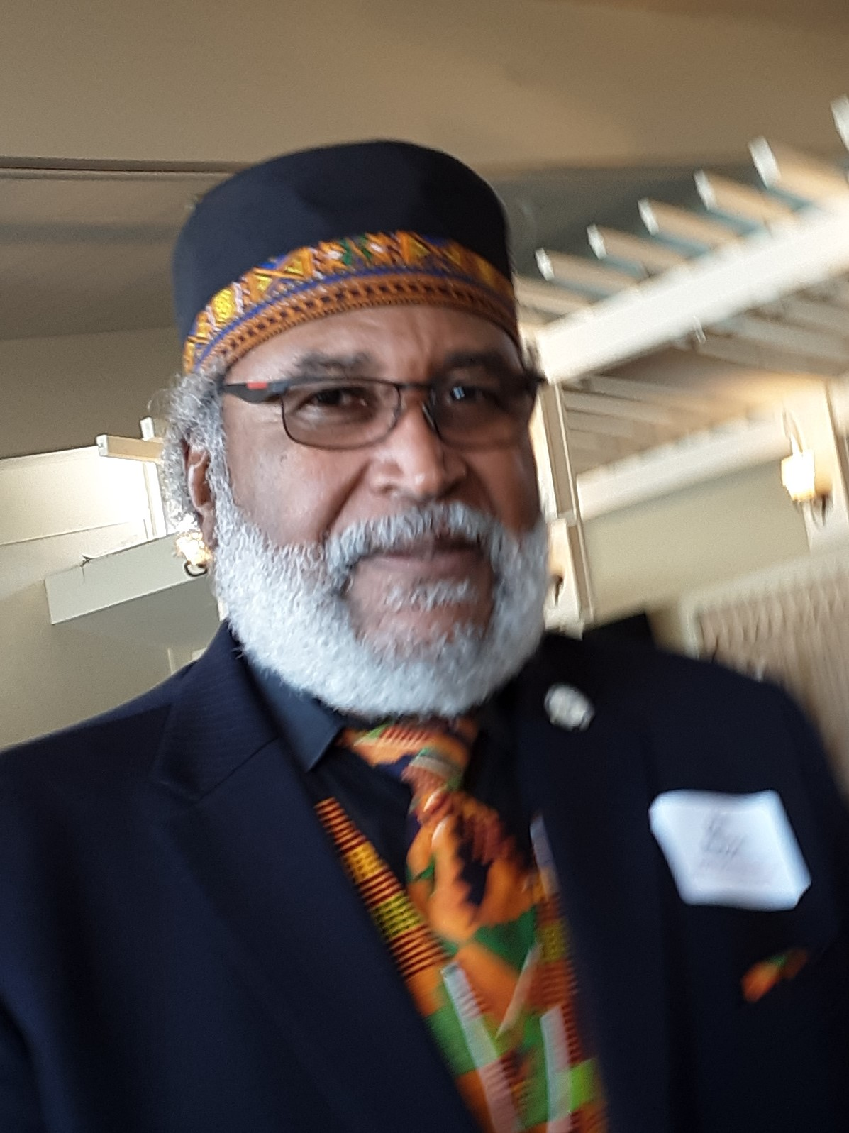 Melvin T "Mel" Mason at the Human Rights Day celebration held by the Monterey Bay United Nations Association on December 7, 2019 when the Baha'i human rights award was presented to Phillip N Butler, Mason was the 2002 awardee. Аҧсшәа: Melvin T "Mel" Mason en la celebración del Día de los Derechos Humanos celebrada por la Asociación de Naciones Unidas de la Bahía de Monterey el 7 de diciembre de 2019.